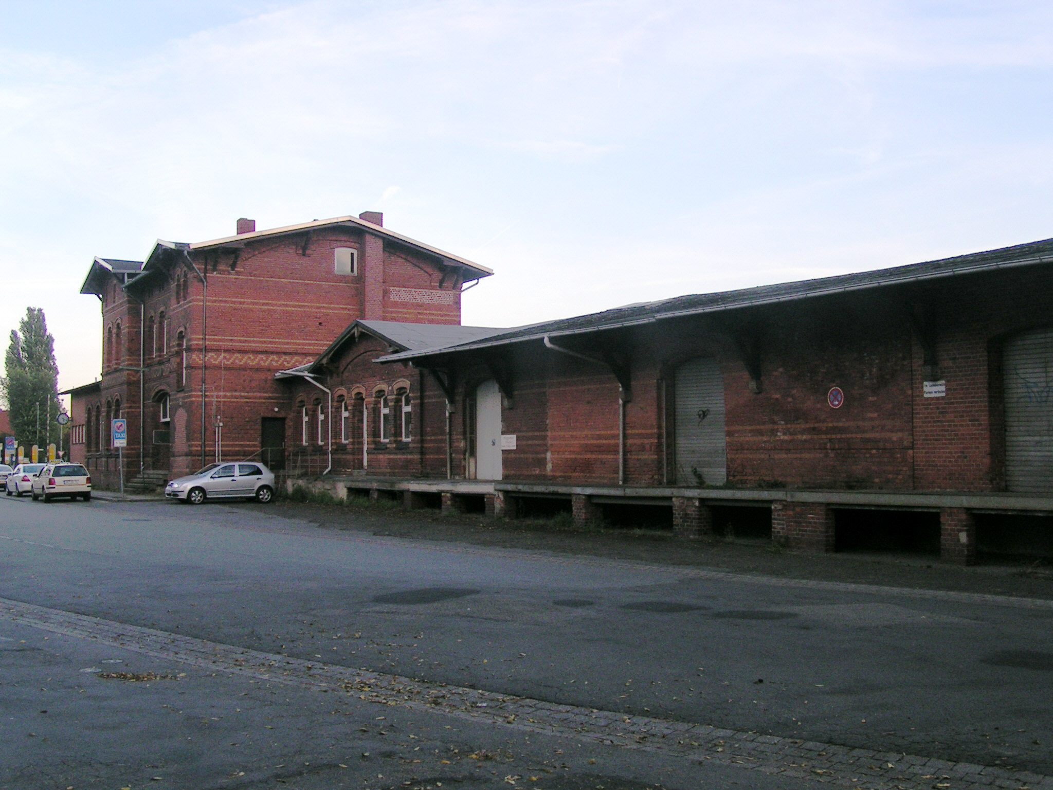 "Gifhorn Stadt" railroad station in Gifhorn, Germany